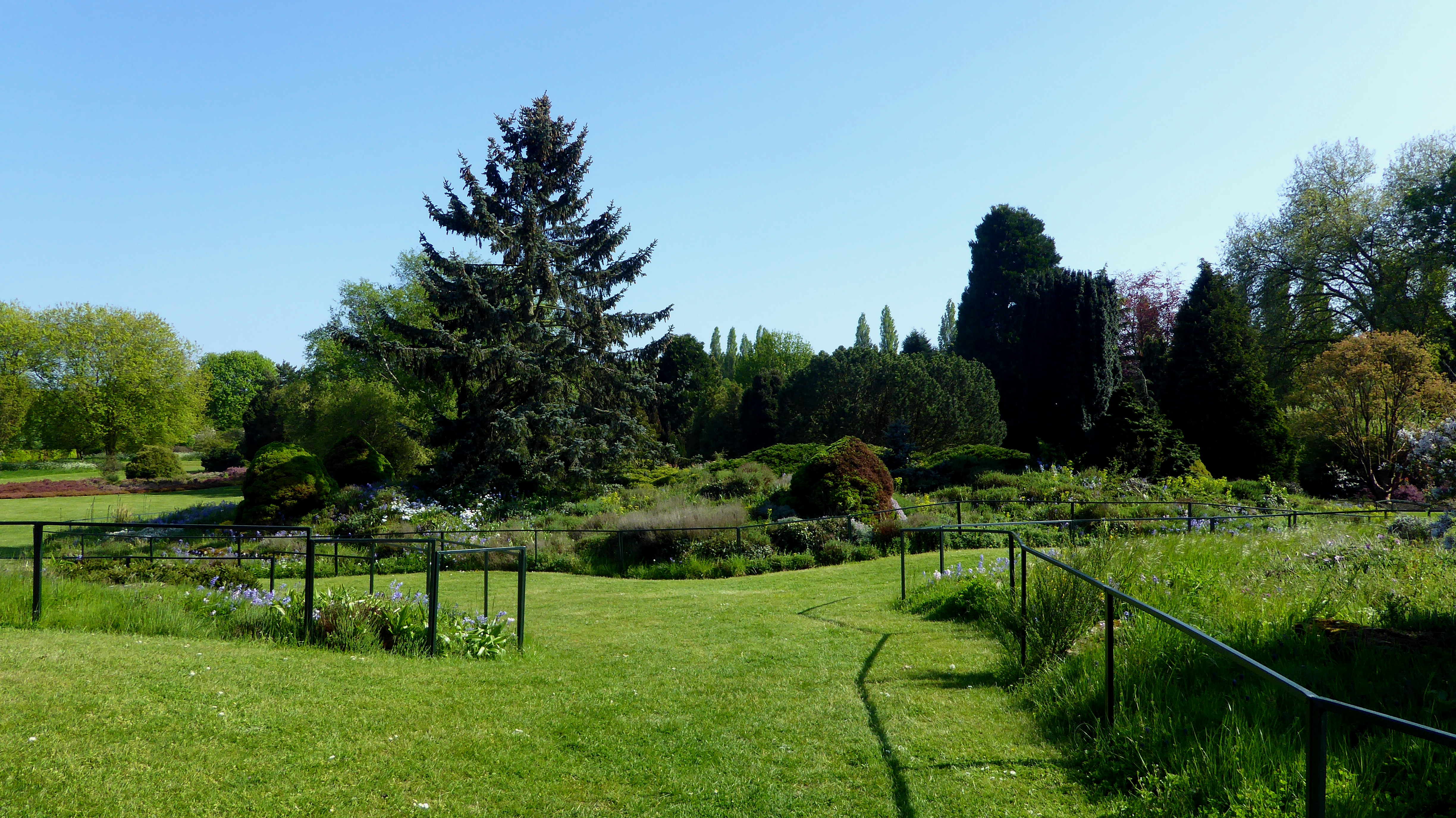 The ornamental garden at Hall Place in the London Borough of Bexley.